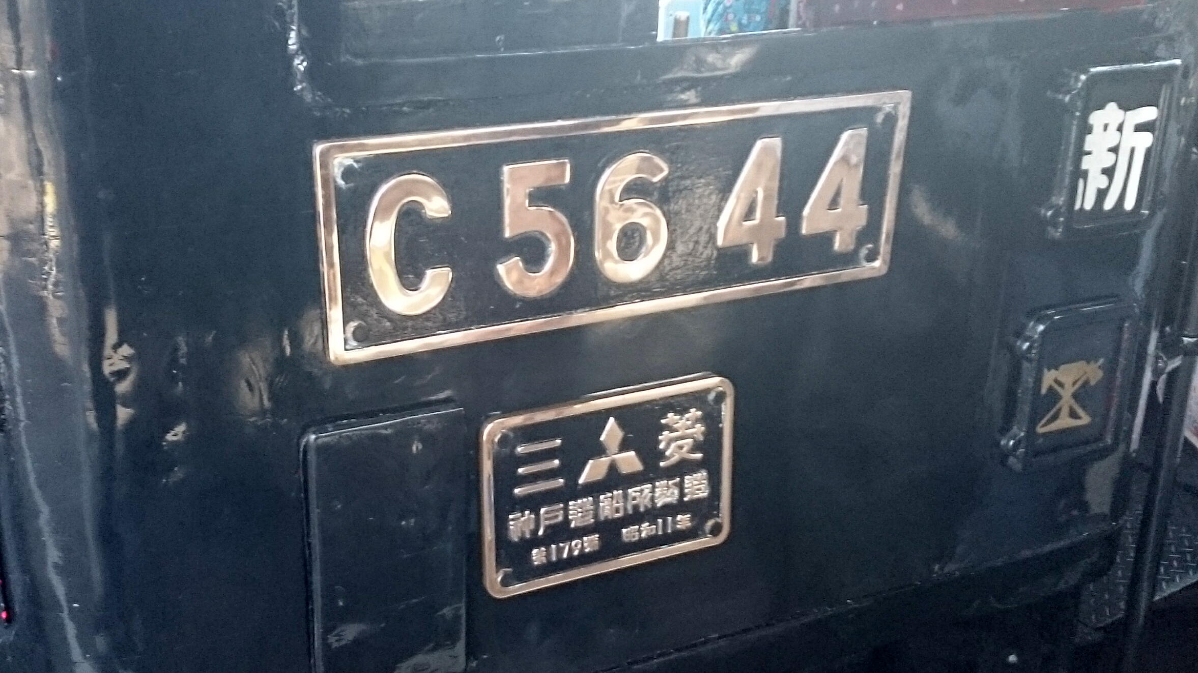 The Nummer plate & Production plate of Oigawa Railway C56 44 Steam Locomotive